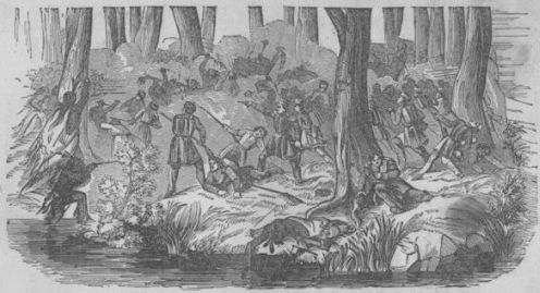 Battle of Point Pleasant black and white. battle scene